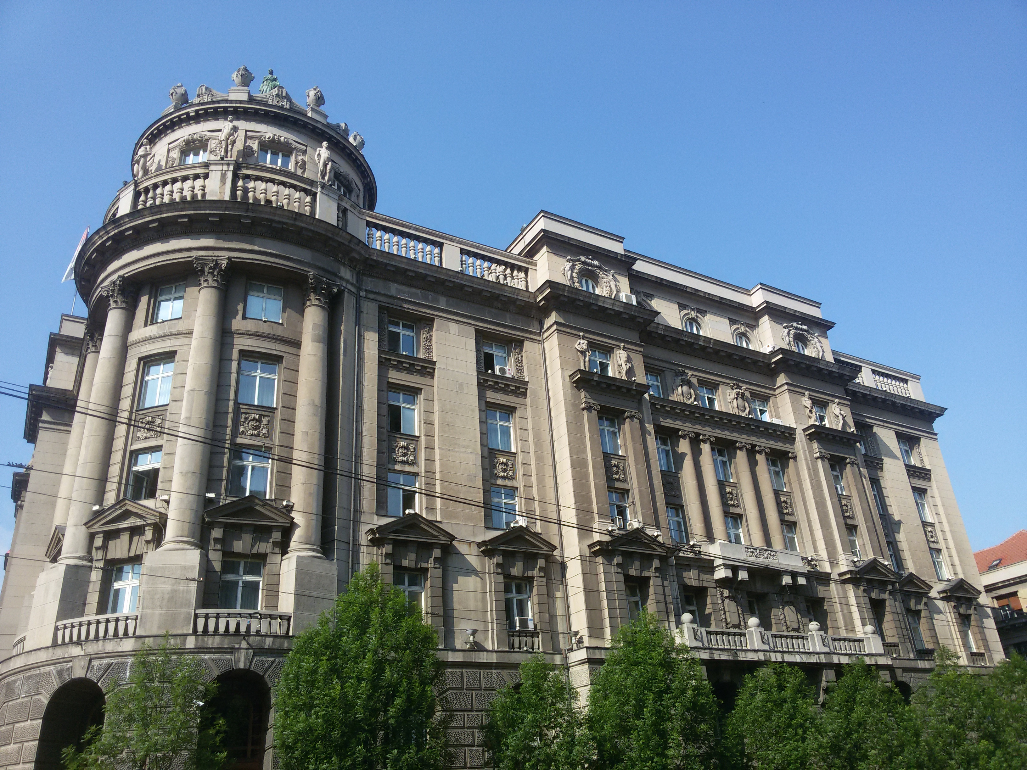 Ministry of Foreign Affairs of the Republic of Serbia, May 2016